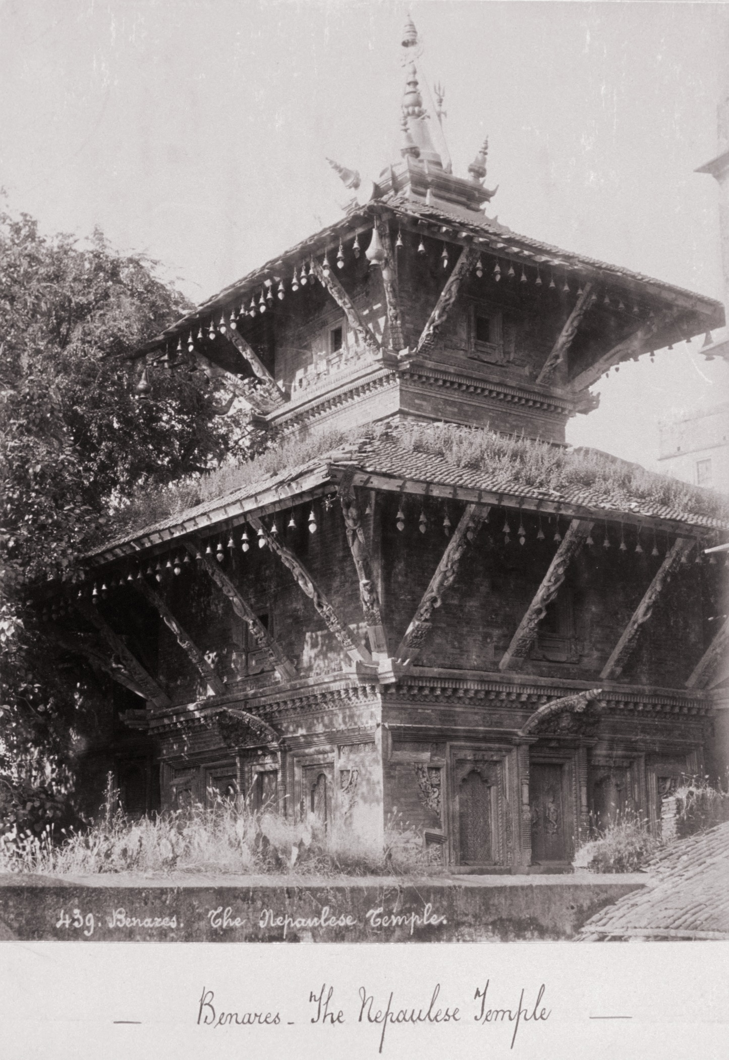 England, late 1860s Descriptive: India I Photographs Albumen print Gift of Mr. and Mrs. Martin I. Harman in honor of Sande Harman (M.90.24.65) Photography